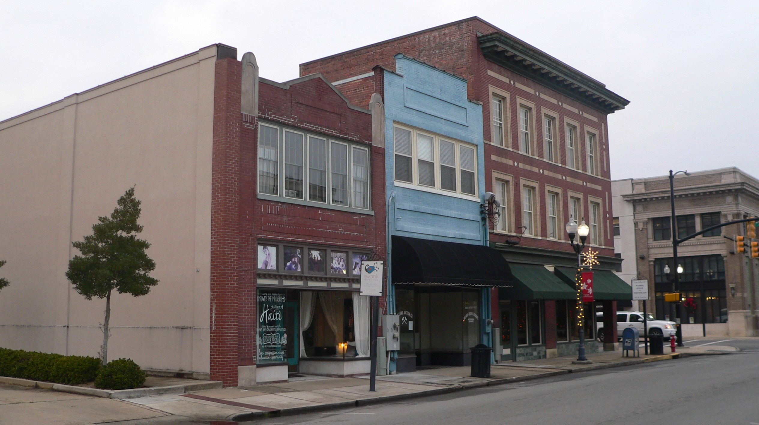 Southwest corner of Third and Market Streets in Smithfield, North Carolina; camera is looking generally northward, obliquely across Third. From left to right are 108 S. 3rd, 106 S. 3rd, and on the corner, the Hood Bros. building at 100-104 S. 3rd. All three buildings are contributing properties in the Downtown Smithfield Historic District, listed in the National Register of Historic Places; the Hood Bros. building is separately listed in the NRHP.